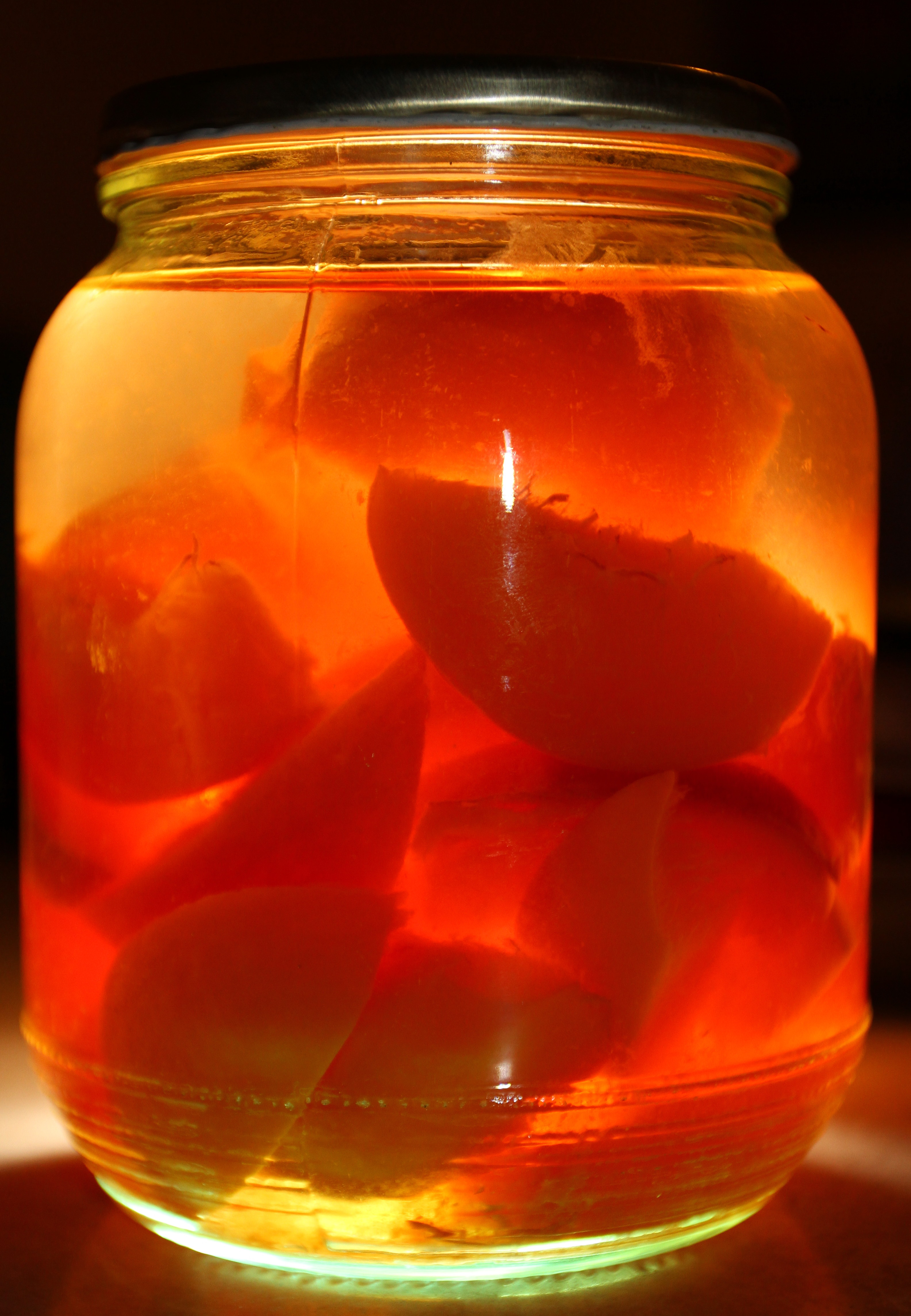 Peach Kompot - traditional Eastern European non alcoholic clear juice obtained by cooking fruit, in a large volume of water.